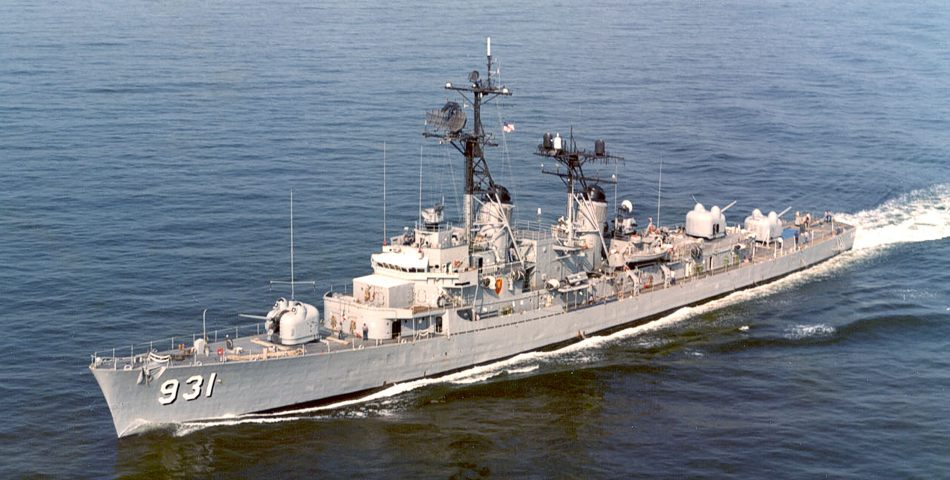 A U.S. Navy destroyer USS Forrest Sherman (DD-931) underway, circa in 1978.